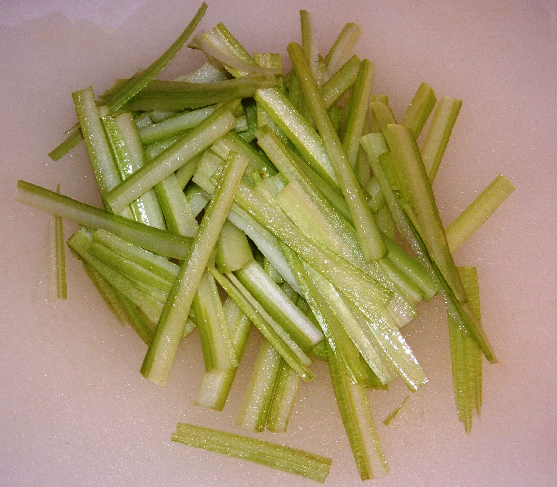 Julienned celery